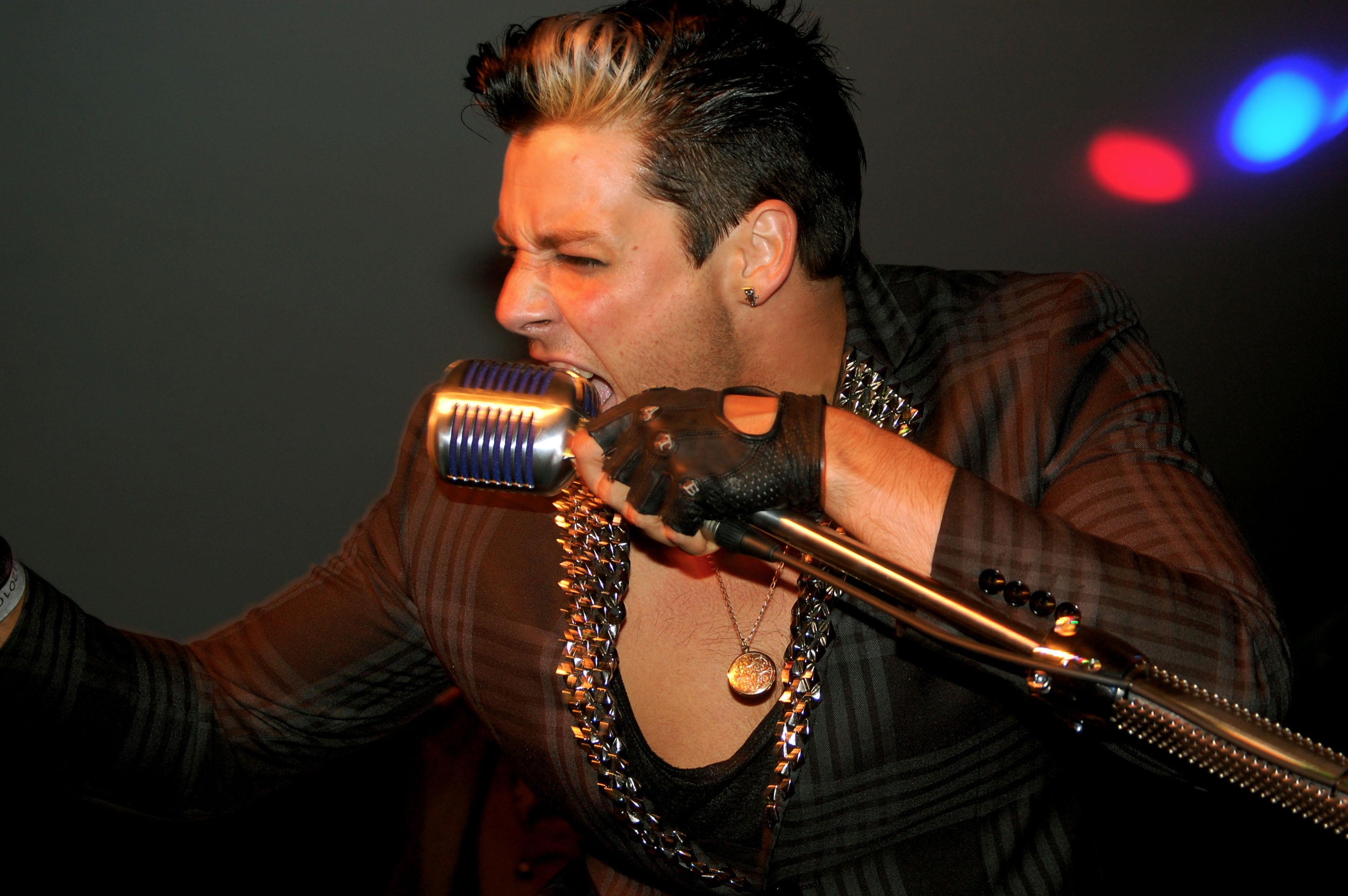 My Passion headline Rhythms of the world Hitchin 2010